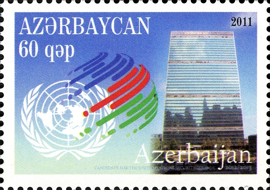 Azerbaijan candidate for the UN Security Council 2012/2013.